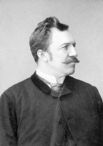 Blažej Bulla (1852–1919), Slovak architect and composer